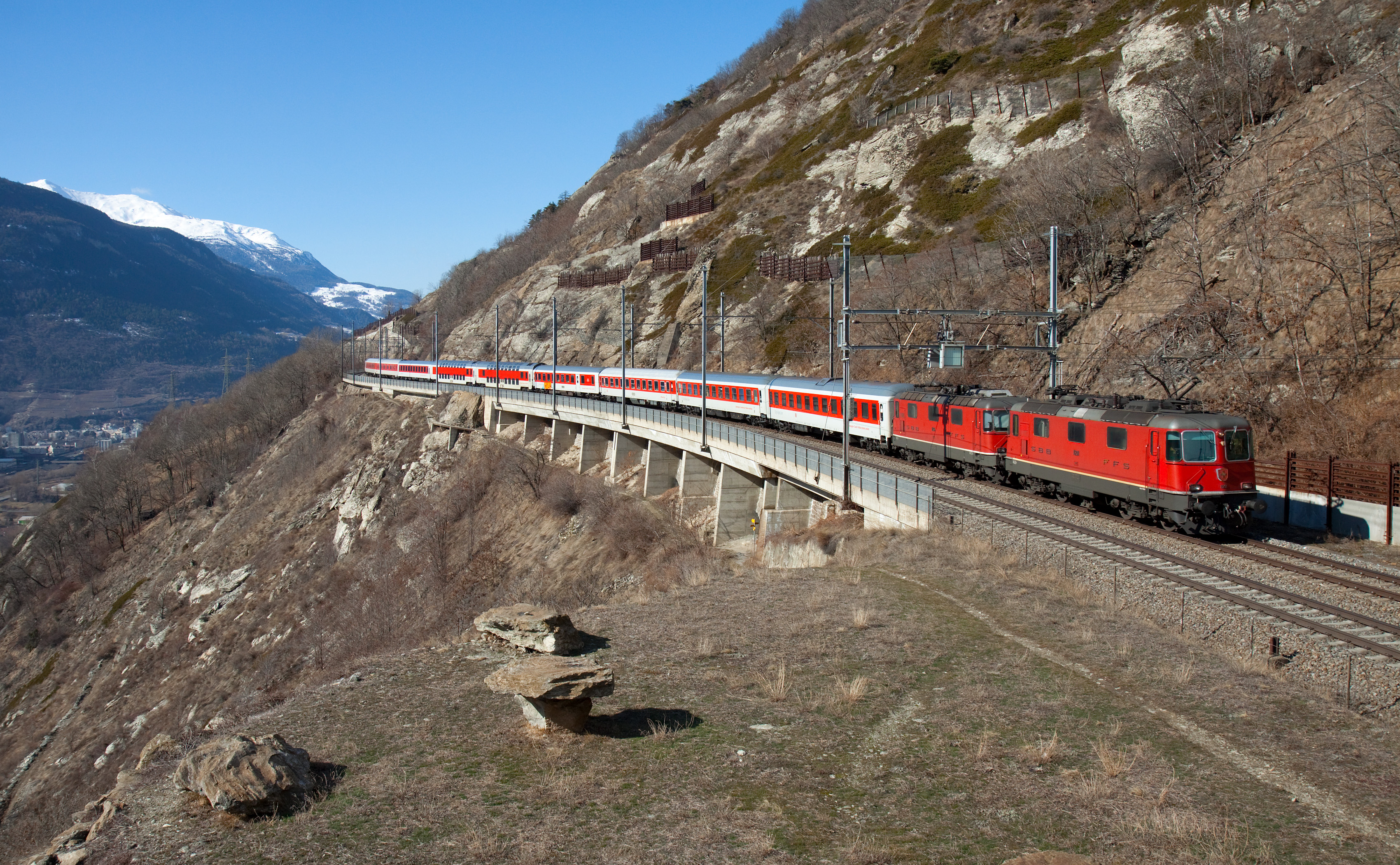 One of the CityNightLine trains to Zurich with through coaches from Hamburg and Amsterdam continues to Brig during the winter months. Motive power is provided by two SBB Re 4/4II working in multiple. Seen between Lalden and Brig.